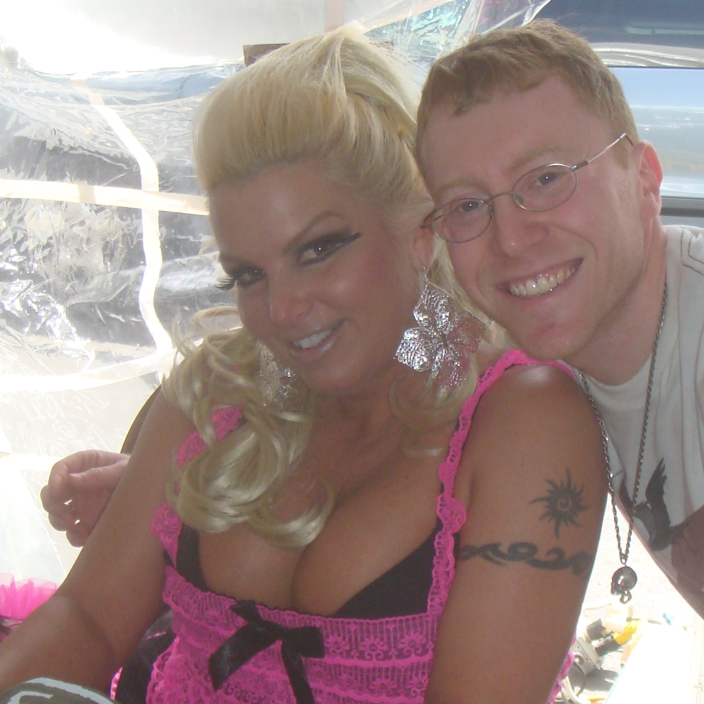 A wrestler I originally met and took a picture with 11 years ago, around the time she was in WWE for like two weeks. I might be the only person in the universe who knows who Bobcat is, but I'm a huge fan so I had to meet her again. (She's married to Al Snow, btw)